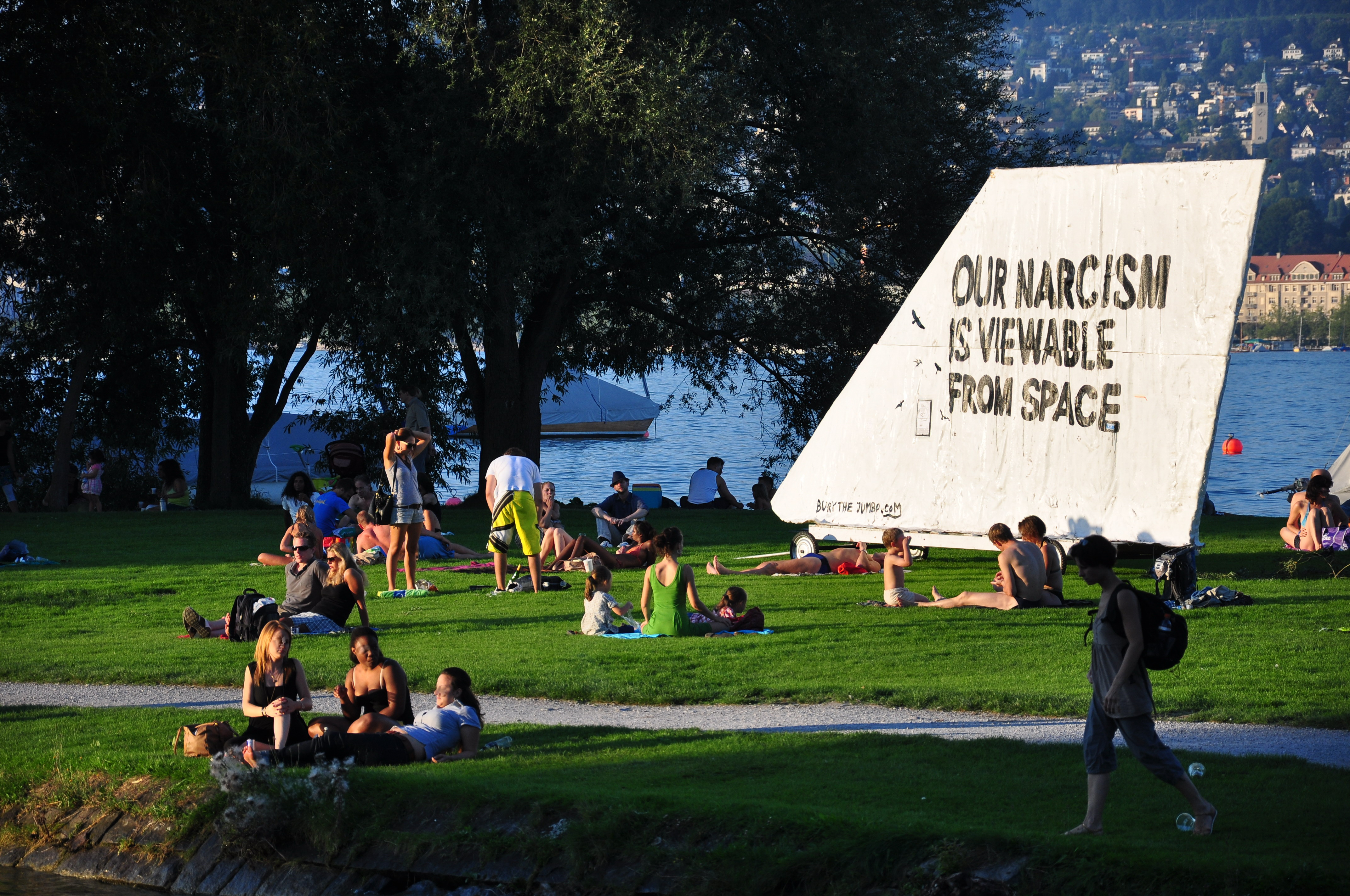 Saffa island on Zürichsee as seen from the Theaterspektakel 2010 in Zürich-Wollishofen